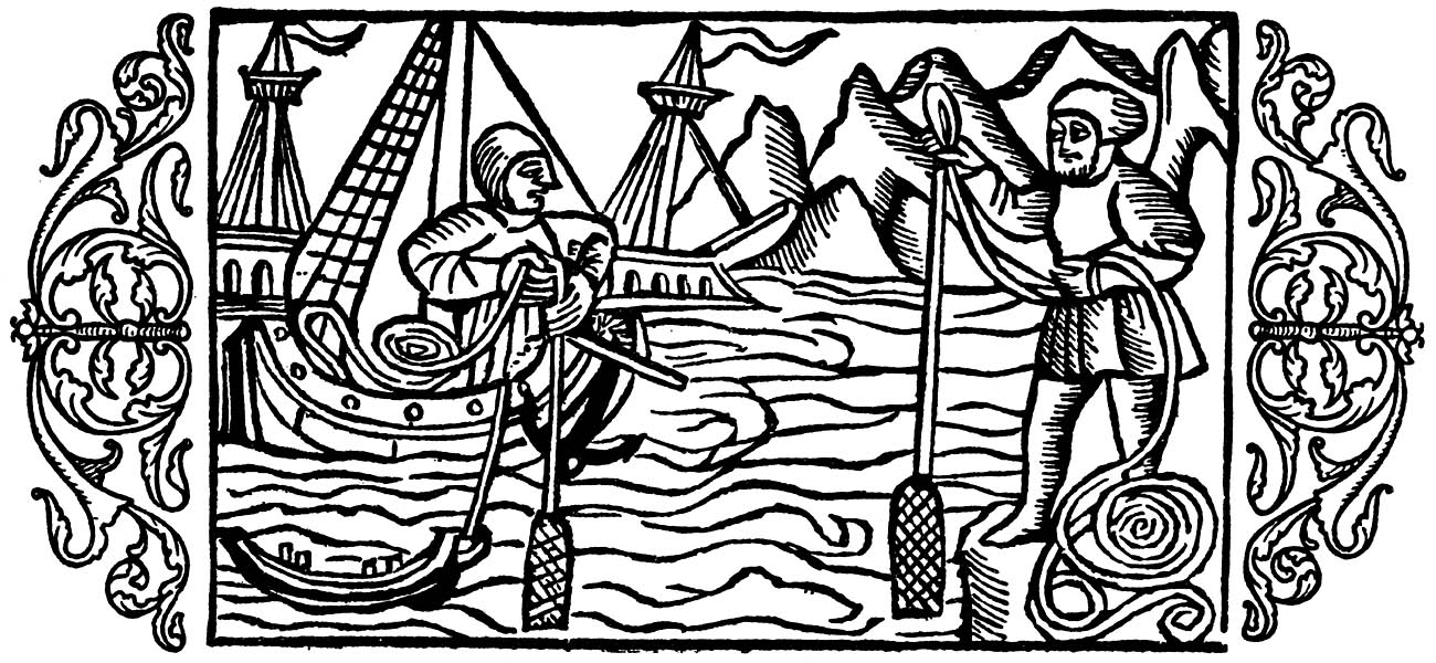 To the left we see a ship approaching the coast. A sailor is sounding the depth. The anchor is hanging ready at the bow. To the right a man is standing on the shore, also sounding the depth with a line provided with a large lead weight.